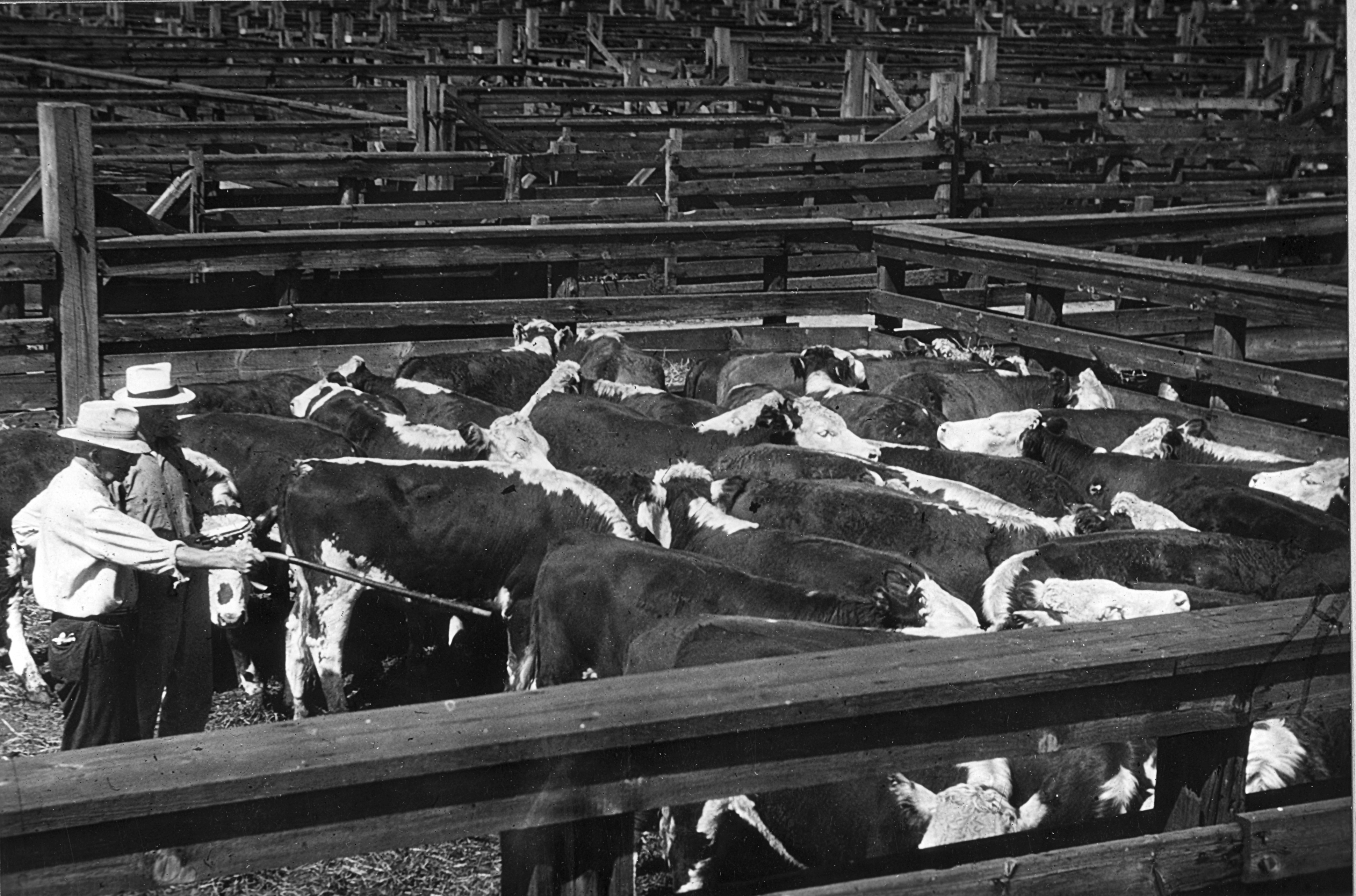 Agricultural Marketing Service (AMS) reporter views cattle for a livestock report in 1941. Photo courtesy of National Archives and Records Administration.